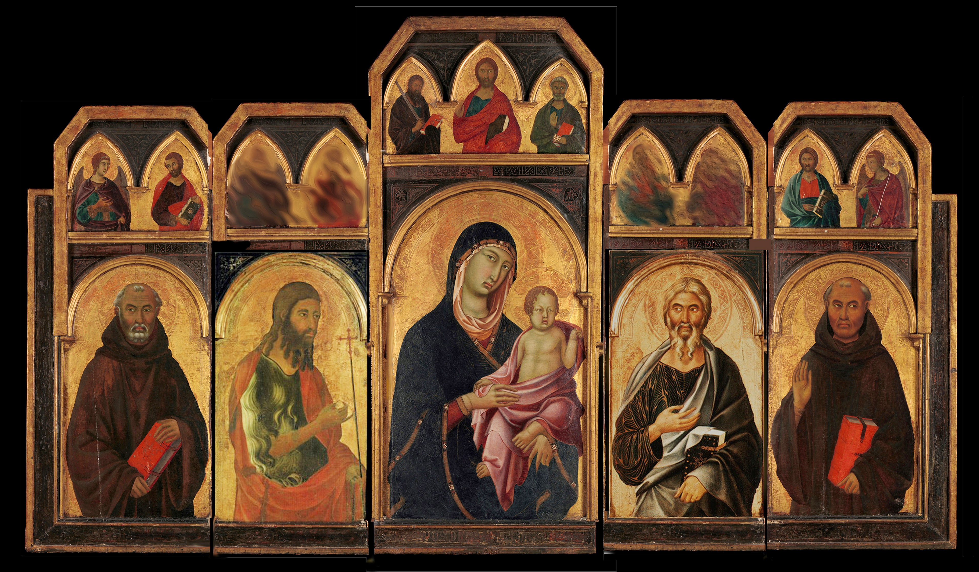 Segna di Bonaventura. Altarpiece, ca. 1320, Reconstruction. Metropolitan Museum, New York